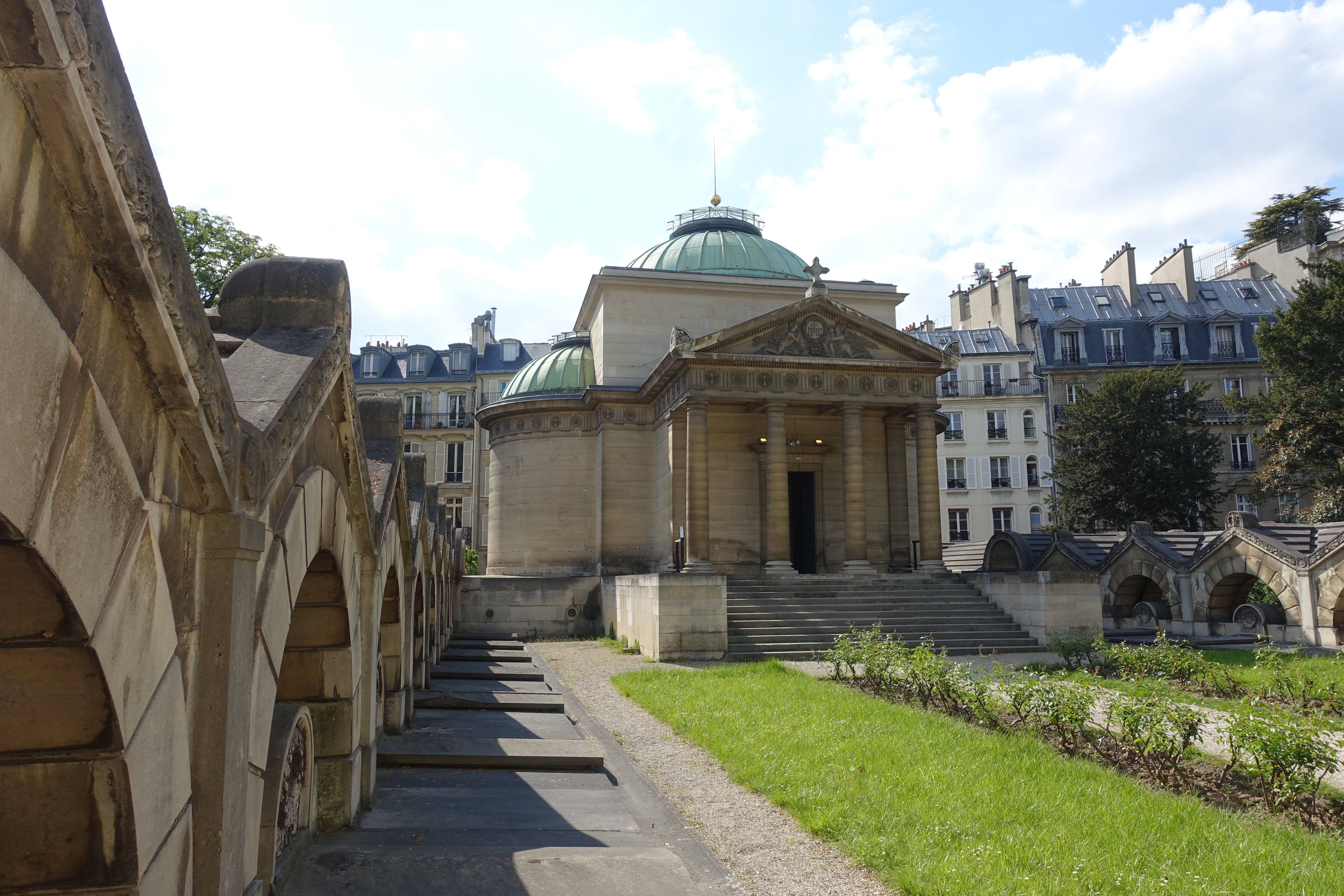 The Chapelle expiatoire, a chapel located in the 8th arrondissement of Paris, France. This chapel is dedicated to Louis XVI and his wife, Marie Antoinette, although they are formally buried in the Basilica of St Denis.